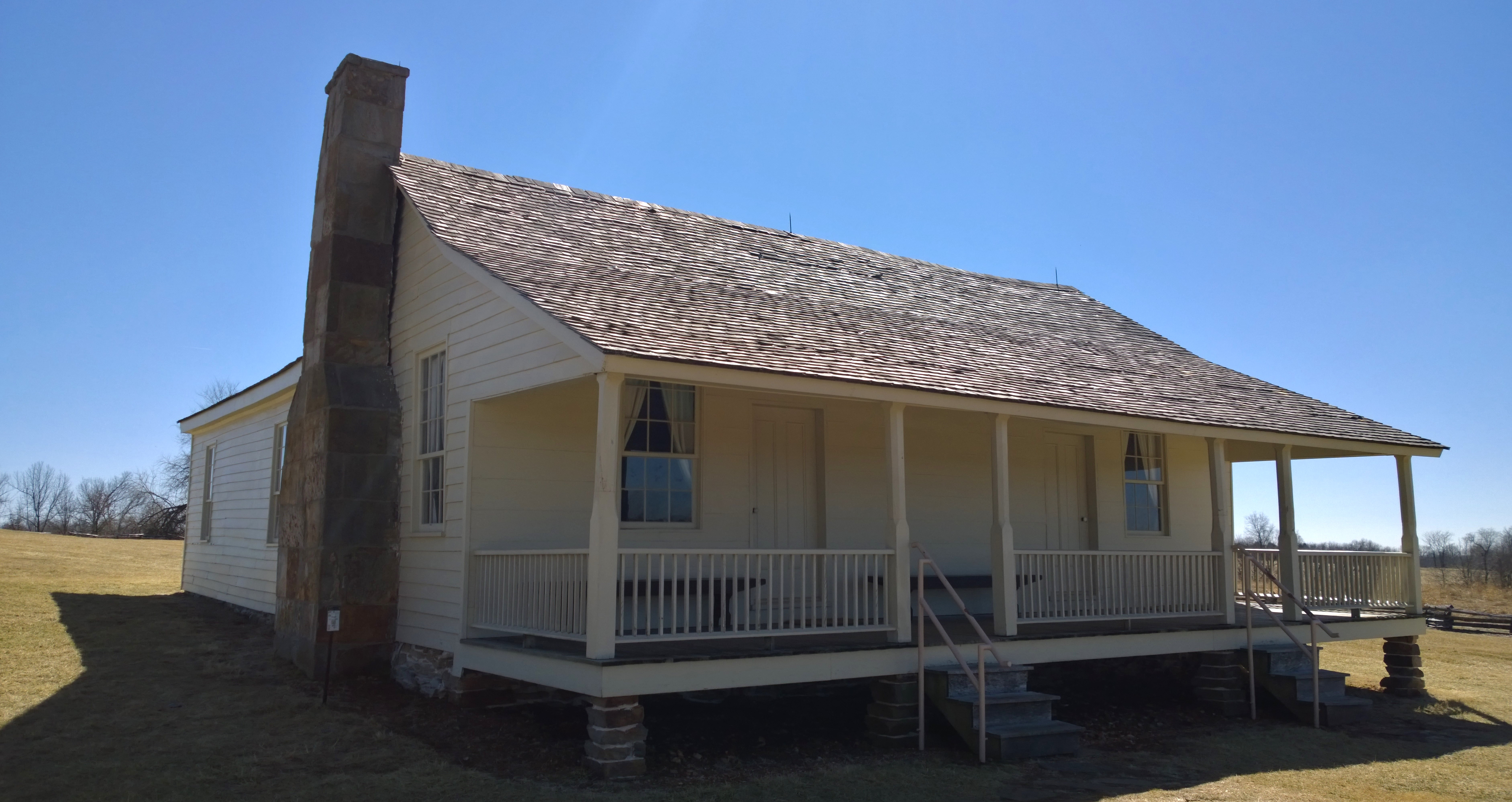 House of the Ray family at Wilson's Creek National Battlefield in SW Missouri. Located on the east end of the battlefield.